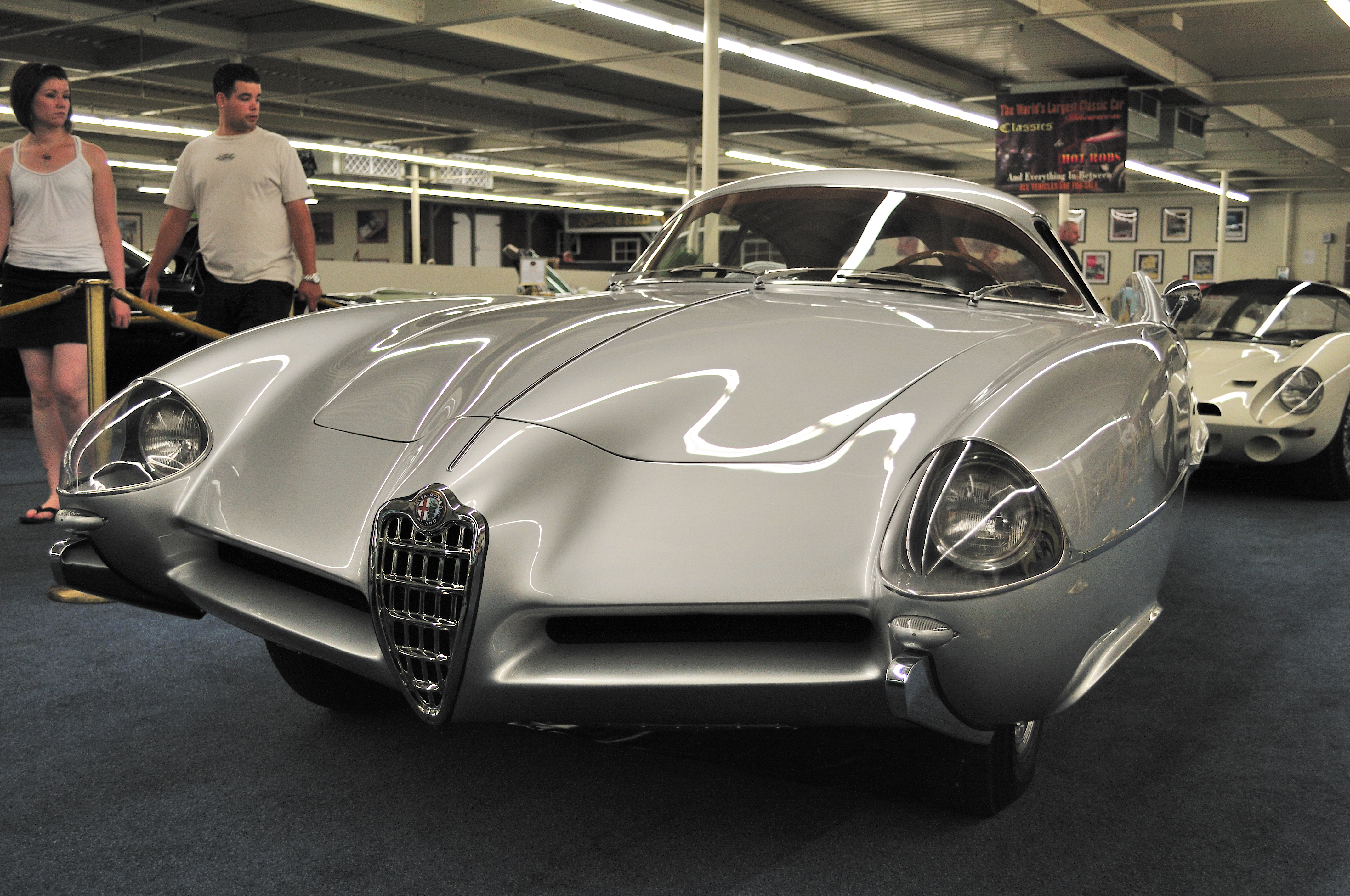 The third and final BAT car to be made and shown at the Turin Auto show was the BAT9. It was made to look more like current Alfa Romeo models than the other BATs had. It has been called the best looking of all the BATs, but there are those who disagree. The BAT 9 did away with the marked wing lines of the previous models in favor of a cleaner, more sober line. The tail fins, which in the other two midels, 5 and 7, had a real wing-like look, were sized down into two small metal plates, much like the tail fins in production on American and some European cars of the time. Bertone transformed the highly creative styling of the two previous BAT models into design credibility, abandoning the extremes of the other designs.